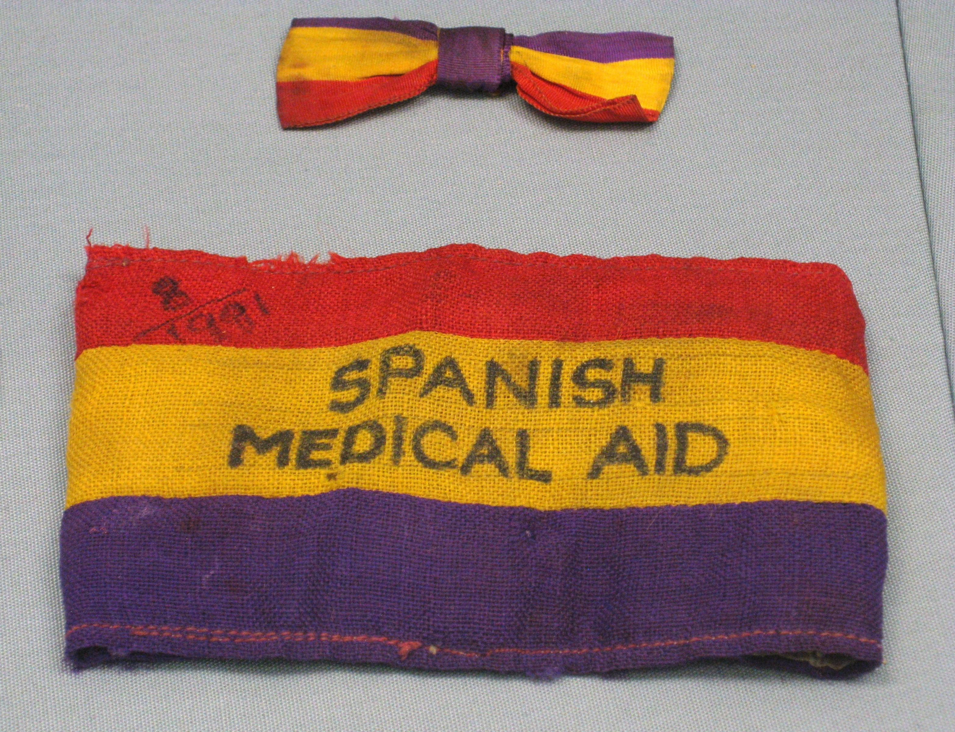 Spanish Medial Aid Armband on display at Army Medical Services Museum.